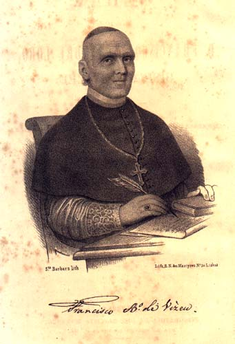 Francisco Alexandre Lobo (1763—1844), bishop of Viseu and Prime Minister of Portugal in 1826-1827.